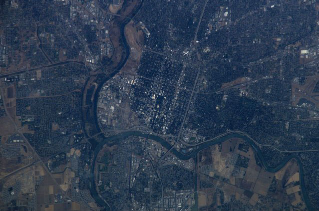 Astronaut Photography of Sacramento California taken from the International Space Station (ISS)